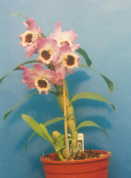 Eulophia guineensis (an orchid). Downloaded from : Larsen Twins Orchids